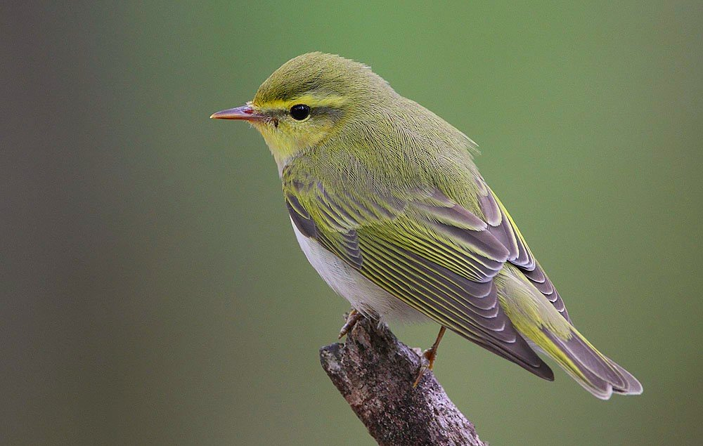 A Wood Warbler in Inversnaid, Loch Lomond, Scotland.